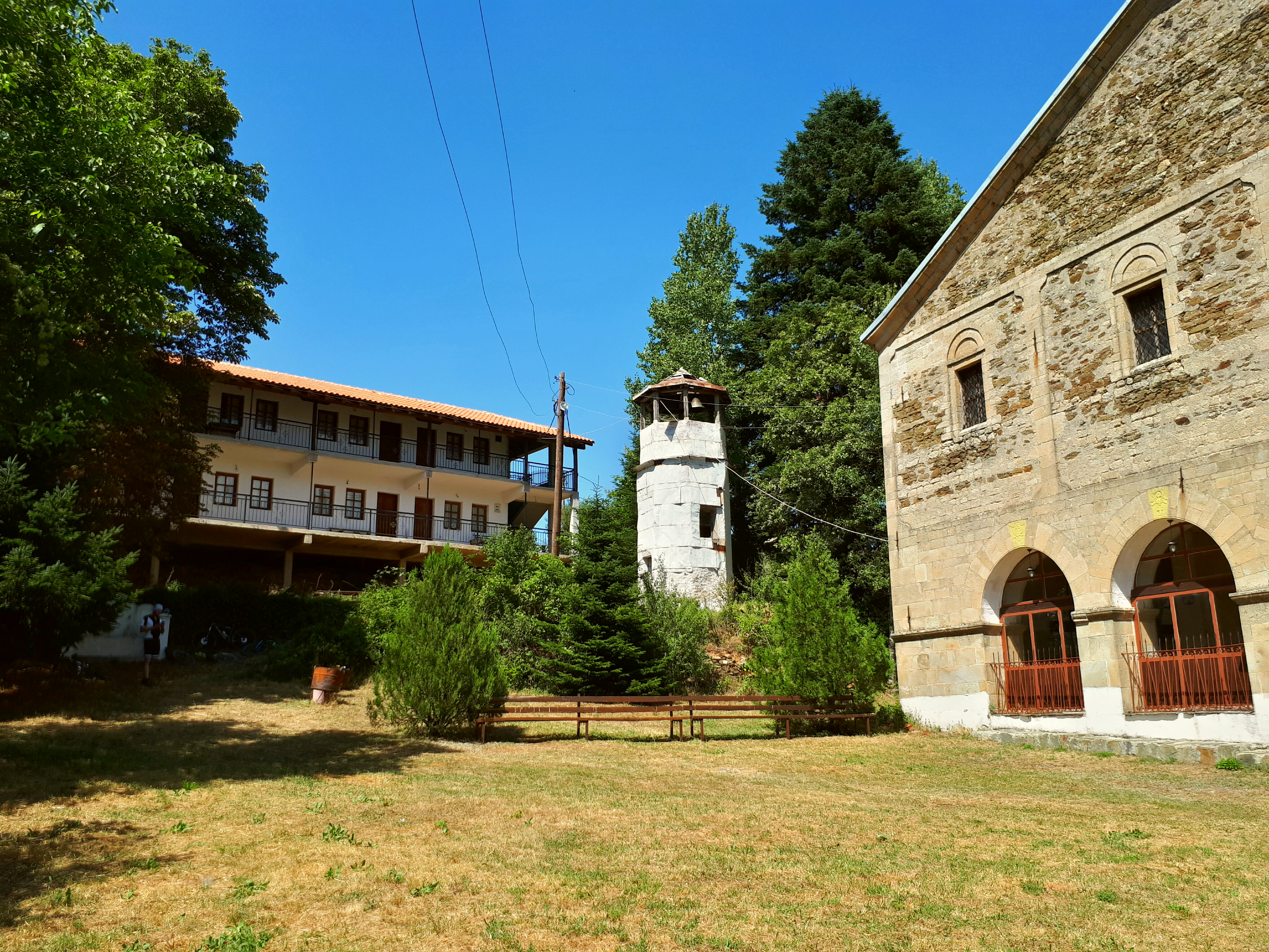 Part of the Veloexpedition in 2017